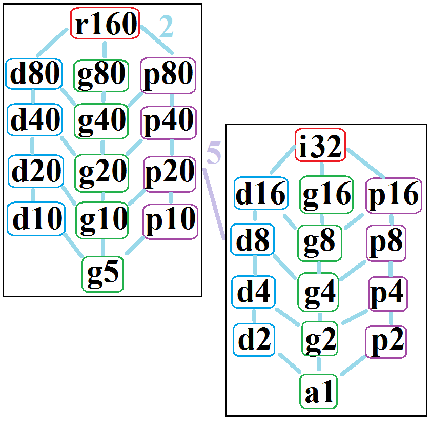 octacontagon symmetries